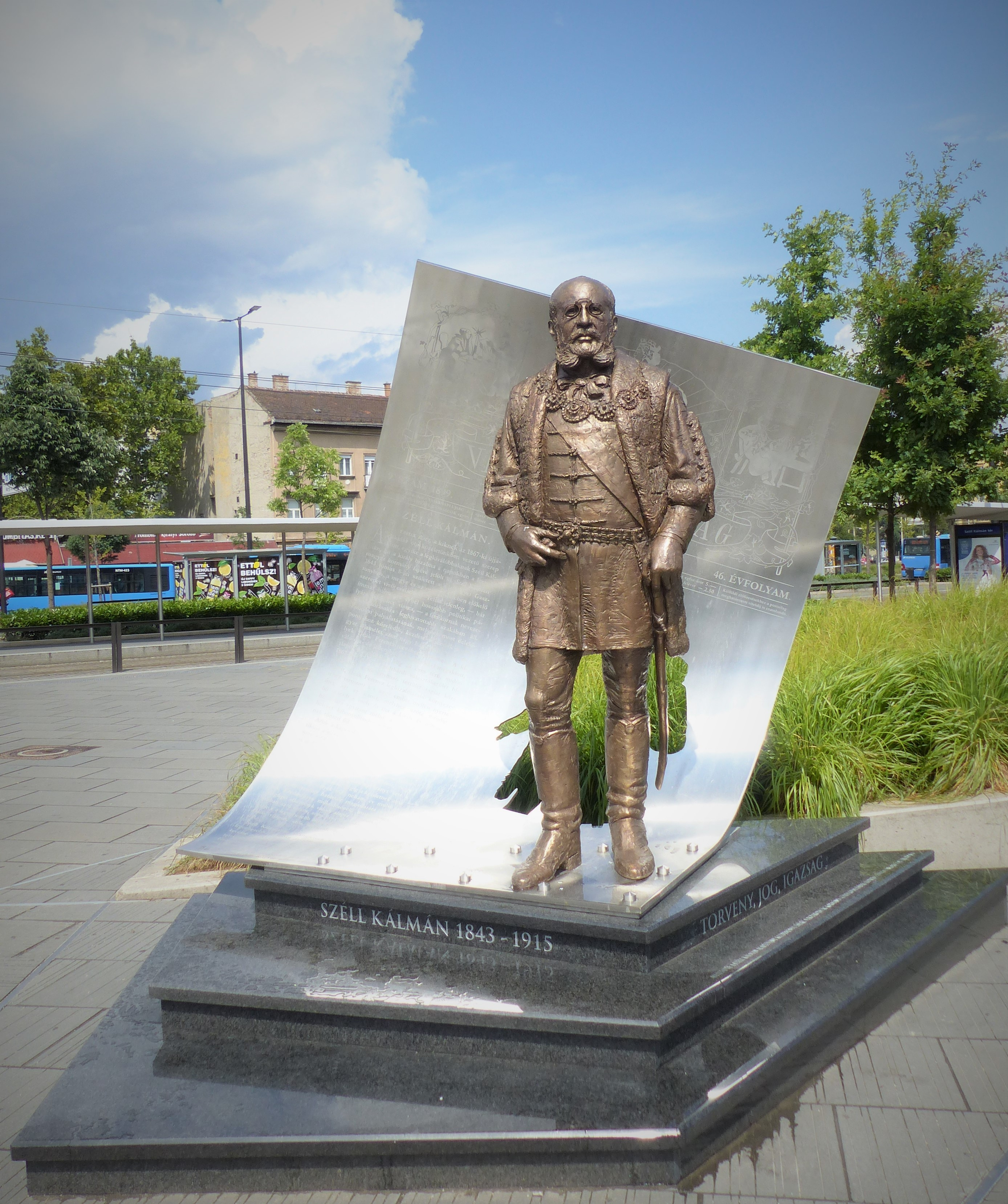 Széll Kálmán. Taken on the 14th of July, 2019. Széll Kálmán tér, Central Europe.